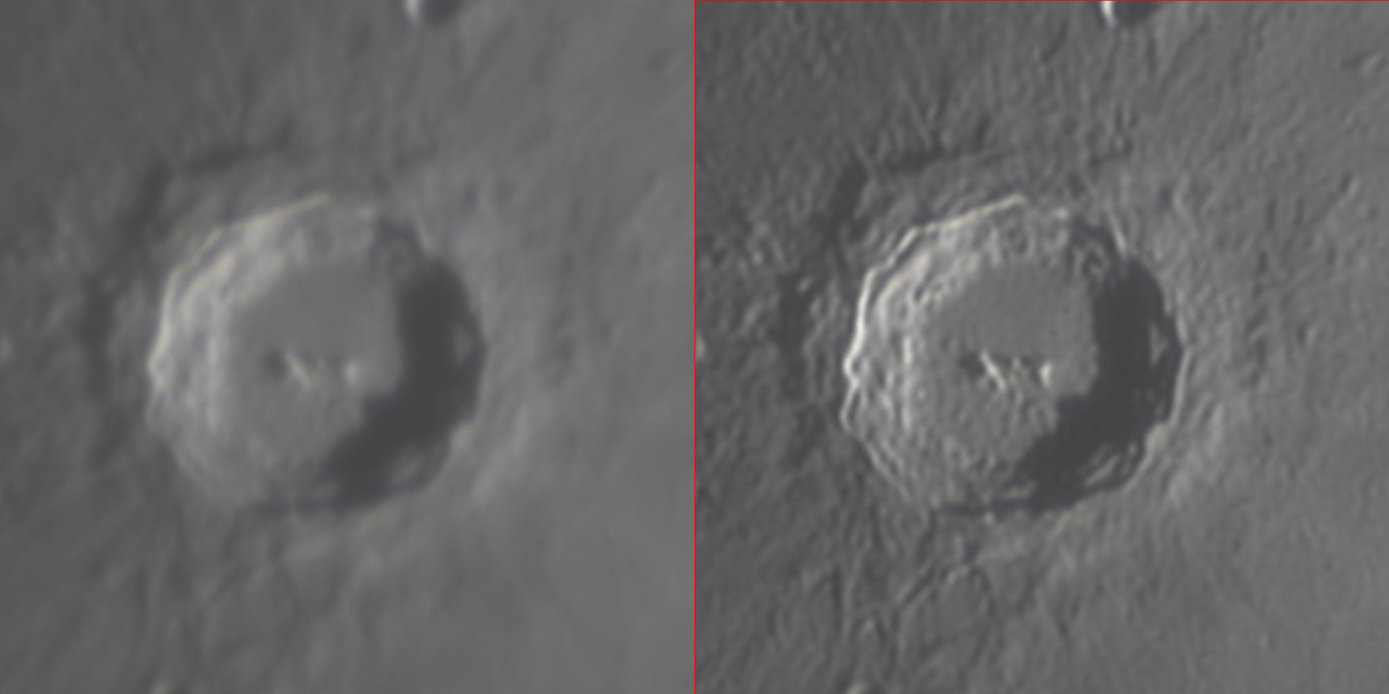 Stacked images of the crater Copernicus before and after deconvolution using the Lucy Richardson method. No other processing has been applied.